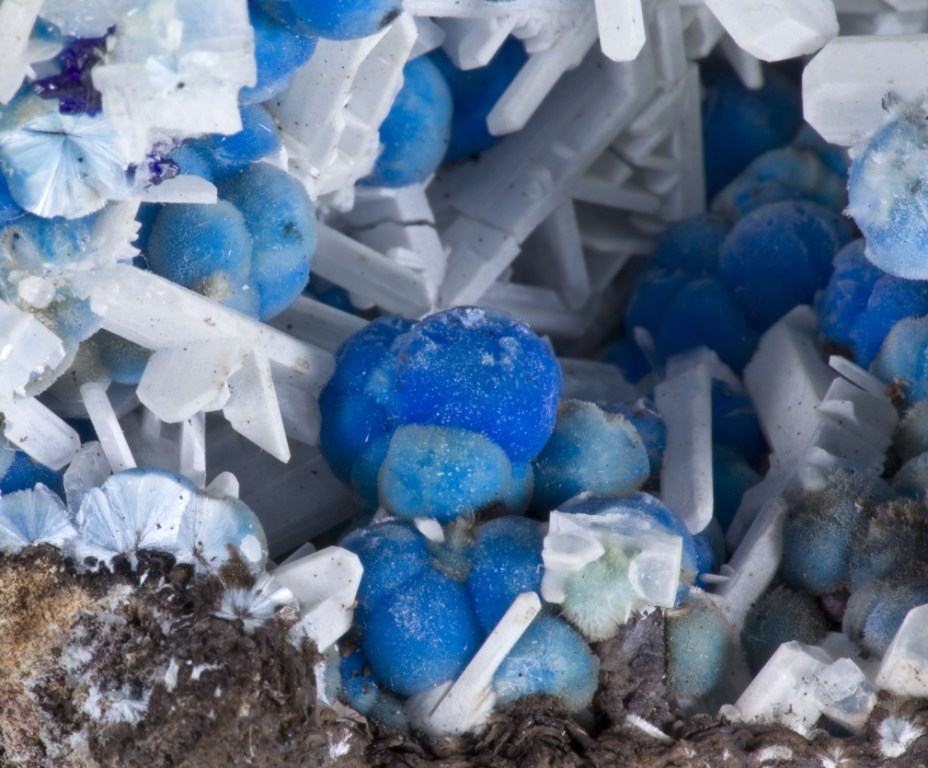 Dundasite, Hydrocerussite Locality: Tsumeb Mine (Tsumcorp Mine), Tsumeb, Otjikoto Region (Oshikoto), Namibia Size: 8 cm x 7 cm x 5.7 cm Dundasite is a very rare hydrated lead, aluminum carbonate species. This relatively large specimen hosts the richest single amount of Dundasite I have seen on a Tsumeb piece. Normally the mineral is white from other locales, and seldom found in such color intensity. It was in an old African collection, and later comes from the Marshall Sussman Tsumeb collection. What is more, the intense blue crystal clusters of dundasite are perched on contrasting, stark white crystals of reticulated cerussite. The unusual bright white color of the cerussite is due to their alteration to hydrocerussite - probably a partial alteration, if not quite complete. Joe Budd photos